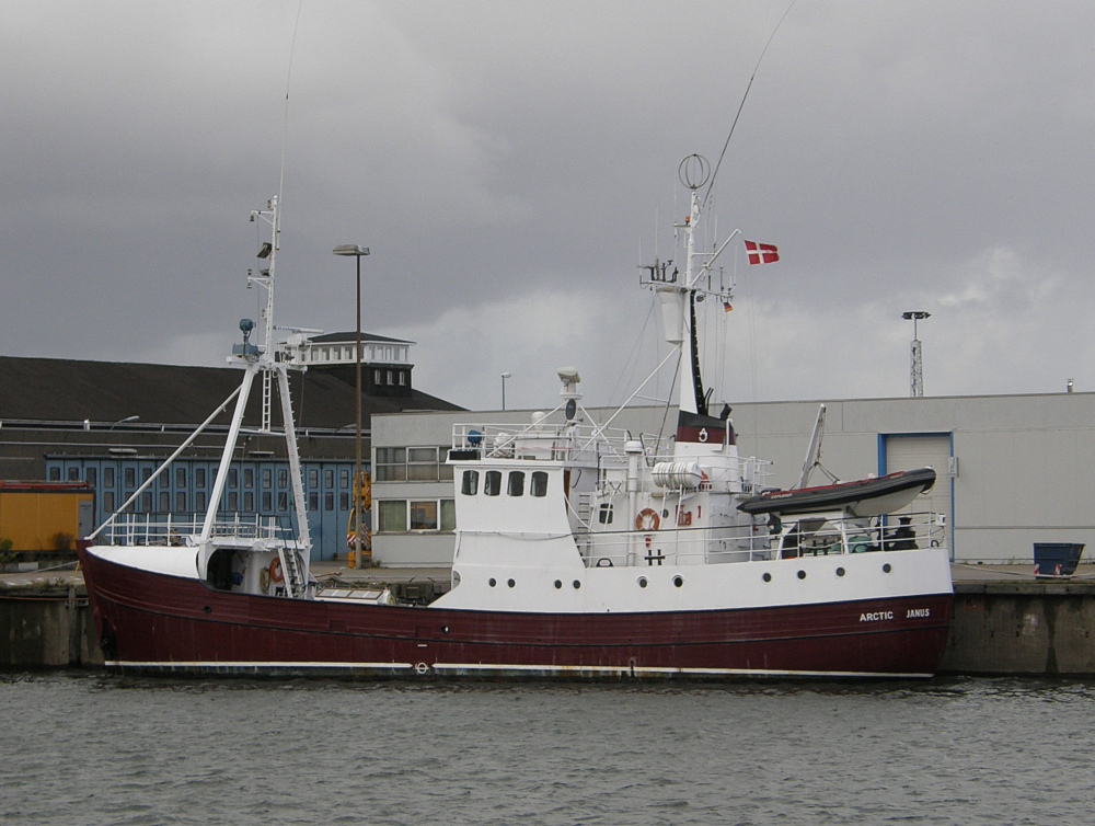 Arctic Janus,Cuxhaven 2009 Built: 1974 by Carstensen Yard, Skagen Length 30.64 meter, 100 feet Beam 7.25 meter Draft 3.40 meter Displacem. 300 Ton Brt. Tonnage 208 BRT Main Engine 500 Bhp Grenaa, Type 6F 24T, 10 knots Aux Engines 2 x 32 Bhp Lister, Type HR 3